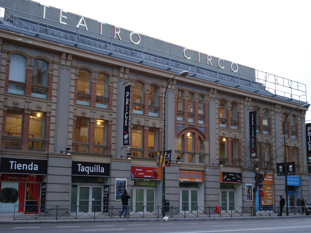 Image of the current facade of the Teatro Circo Price in Madrid (Spain)